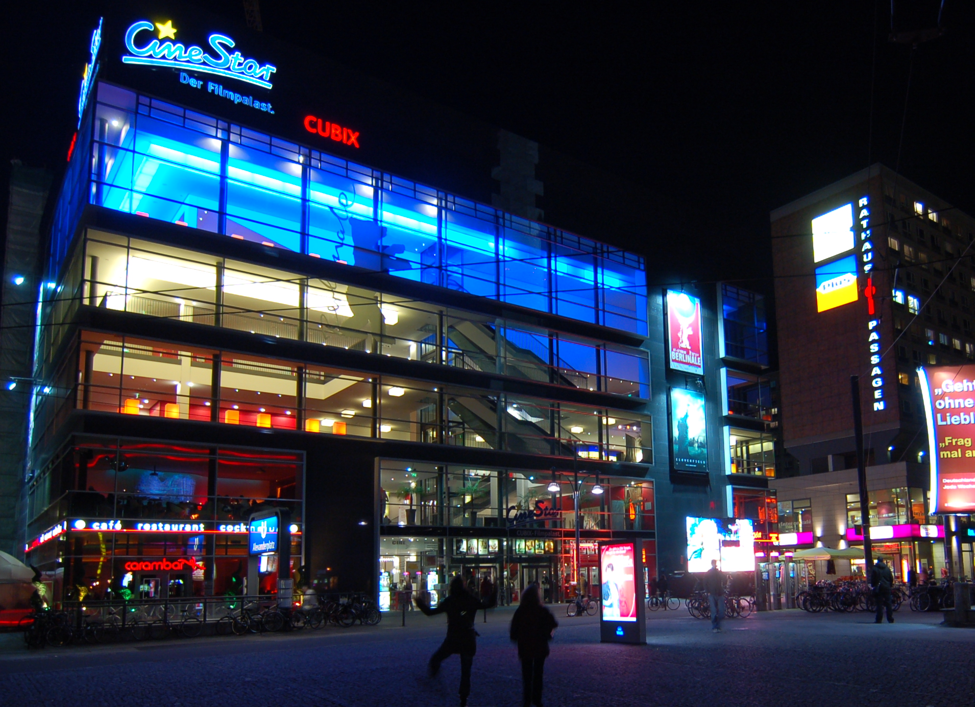 The Cubix Cinema during the Berlin Film Festival in 2008